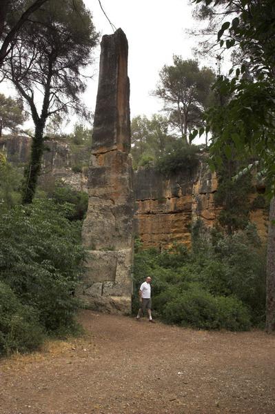 Pedrera romana del Mèdol. Els romans varen fer servir la pedra d'aquesta zona per als edificis de Tarraco. Al centre varen deixar un monolit sense utilitzar-ho, per a deixar constancia de l'estat original abans de treure la pedra. Roman quarry of the Medol. The Romans used the stone of this zone for the buildings of Tarraco. In the center they left a monolit without using it, to show how it was before taking out the stone. World heritage site id:875-011 from "Archaeological ensamble of Tarraco"